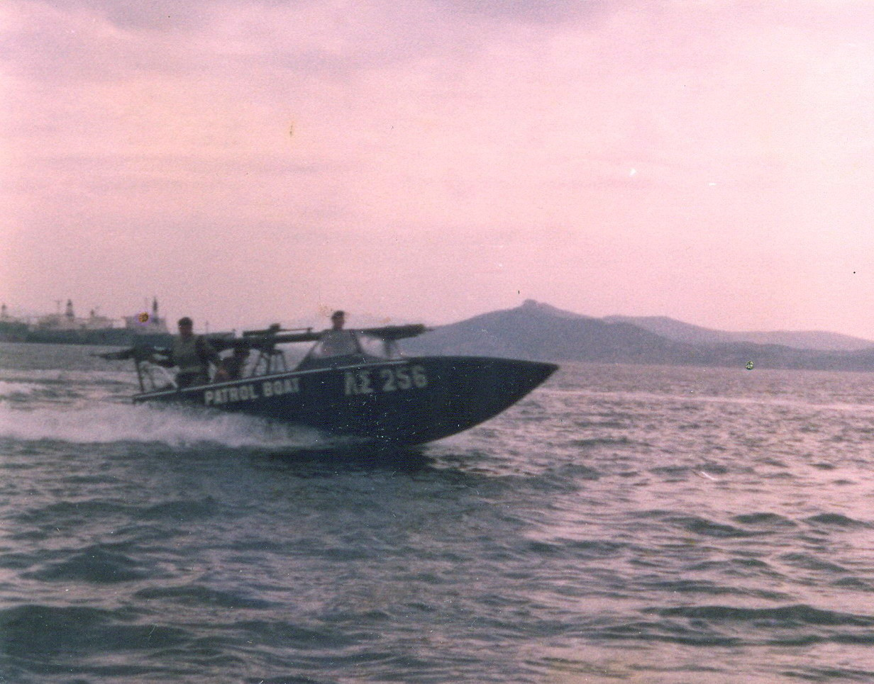 Patrol boat with RCL106